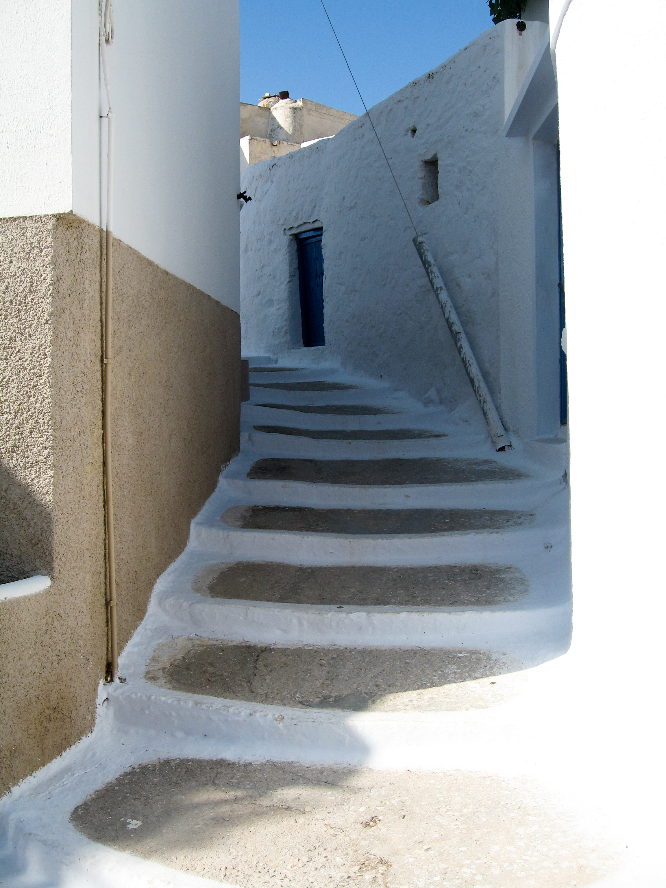 Egiali (Langada), Amorgos Island, Greece